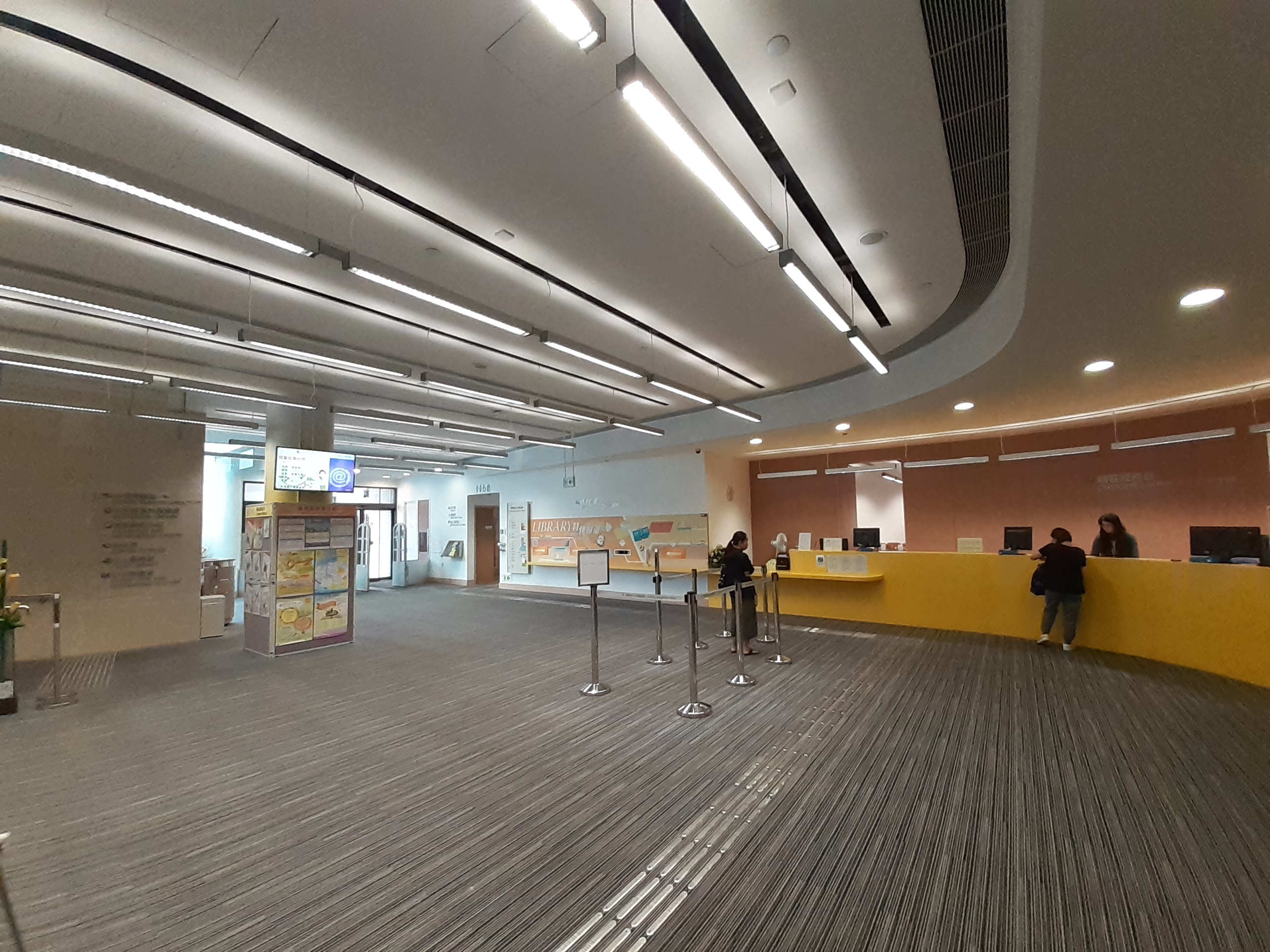 HK TKL 調景嶺 Tiu Keng Leng 彩明街 Choi Ming Street 調景嶺公共圖書館 Tiu Keng Leng Public Library in November 2019